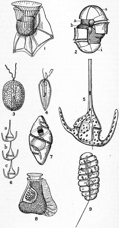 1. Modified from Schütt, Ornithoceras. 2. Diagram of transverse fission of a Dinoflagellate. 3. After Schutt, Exuviaeella. 4. After Stein, Prorocentrum.5, 6. Ceratium, single and series. 7. Pouchetia fusus (Schutt). 8. Citharistes. 9. After Butschli, Polykrikos. From Delage and Hérouard’s Traité de zoologie concrete, by permission of Schleicher Frères.